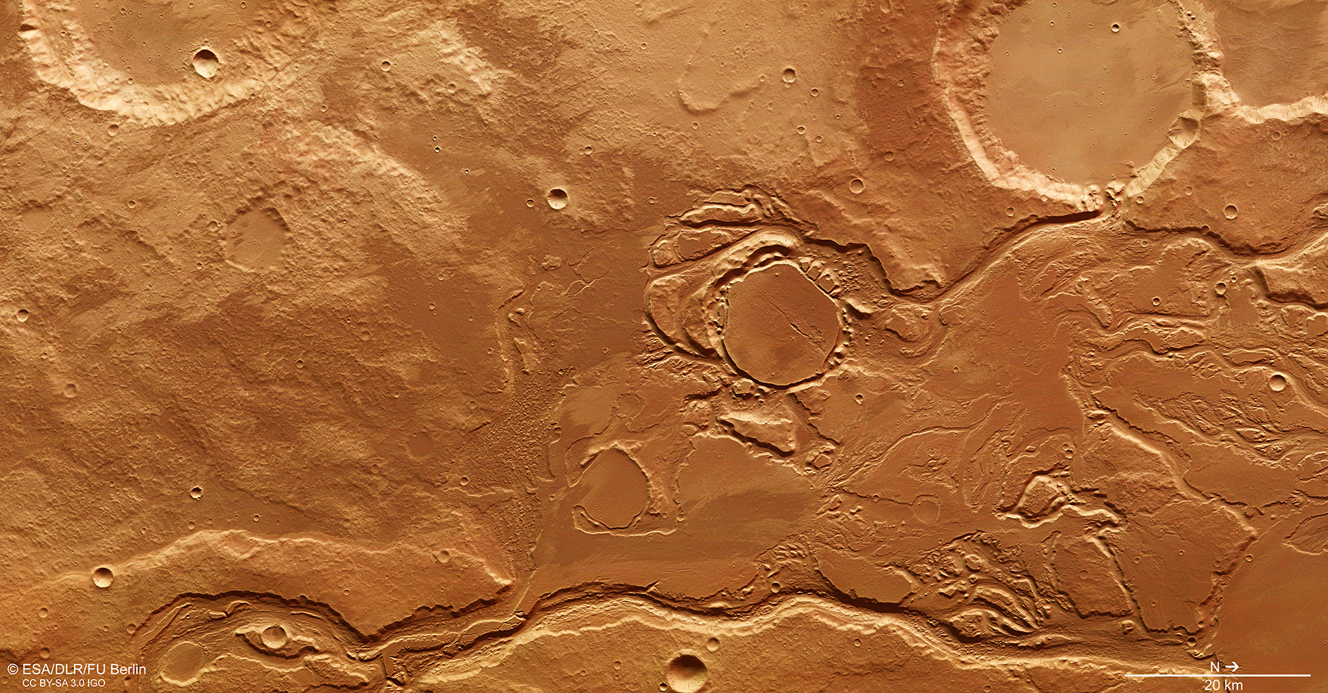 A part of northwestern Mangala Valles on Mars imaged by the HRSC instrument aboard Mars Express.